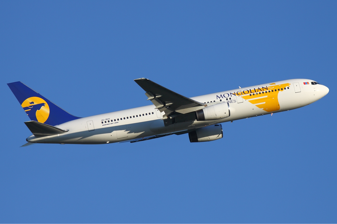 MIAT Mongolian Airlines Boeing 767-300